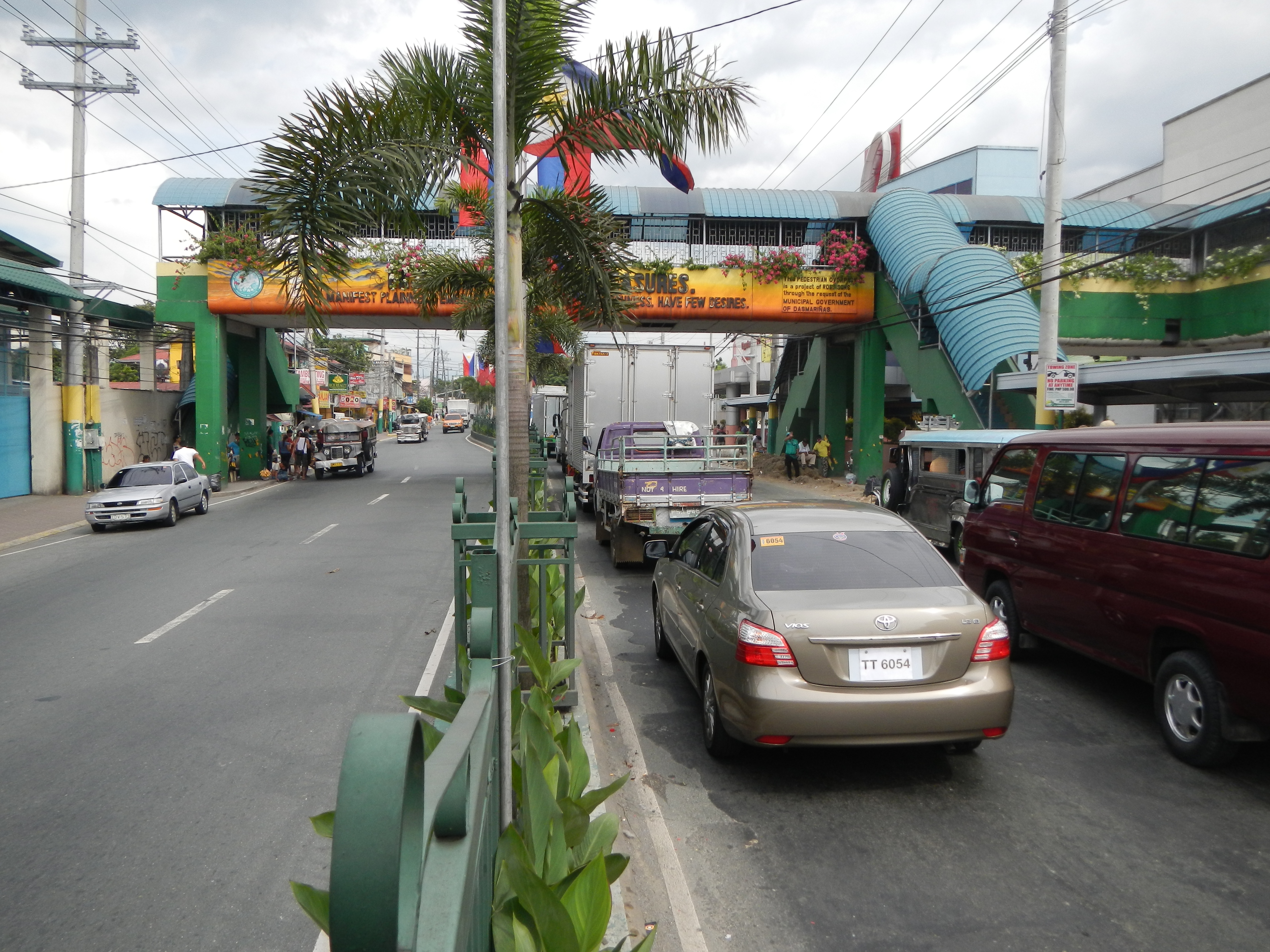 Aguinaldo Highway[1] The Aguinaldo Highway is a 4-lane, 41-kilometre (25 mi) highway passing through the busiest towns and cities of Cavite, Philippines. It is the busiest and most congested of the three major highways located in the province, the others are Governor's Drive and A. Soriano Highway. Congressional Road Intersection -- Governor's Drive Intersection---------[N.B. June 7, 1st Friday, 2013 Photography of - From Bulacan at 9:05 a.m., I took photo of Dasmariñas [2] City at 12:49 pm, the Aguinaldo Highway, then, at 3:35 pm, I took photo of Carmona, Cavite [3] - I finished San Lazaro Carmona Race Track, Carmona Welcome Arch and Binan Laguna Welcome Arch and Araneta Coliseum Quezon City at 8:31 p.m. and started uploading via slow internet next day June 8, 2013 at 6:59 pm - I hereby certify that these rarest, raw, original and unedited photos are exclusive for Commons and Wikipedia never uploaded in any Internet or any site, and for the public domain without any condition.] Aguinaldo Highway cor. Governor's Drive, Brgy. Sampaloc 1, Dasmariñas City, Cavite .---------[N.B. June 7, 1st Friday, 2013 Photography of - From Bulacan at 9:05 a.m., I took photo of Dasmariñas [4] City at 12:49 pm, the Aguinaldo Highway, then, at 3:35 pm, I took photo of Carmona, Cavite [5] - I finished San Lazaro Carmona Race Track, Carmona Welcome Arch and Binan Laguna Welcome Arch and Araneta Coliseum Quezon City at 8:31 p.m. and started uploading via slow internet next day June 8, 2013 at 6:59 pm - I hereby certify that these rarest, raw, original and unedited photos are exclusive for Commons and Wikipedia never uploaded in any Internet or any site, and for the public domain without any condition.]